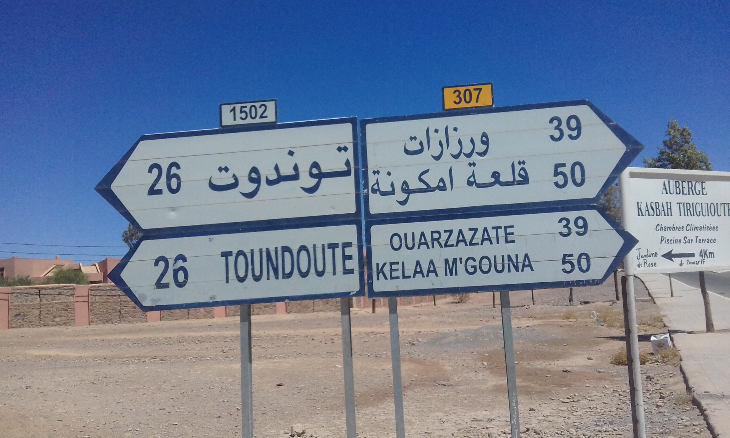 This is an image with the theme "Play" from: Morocco